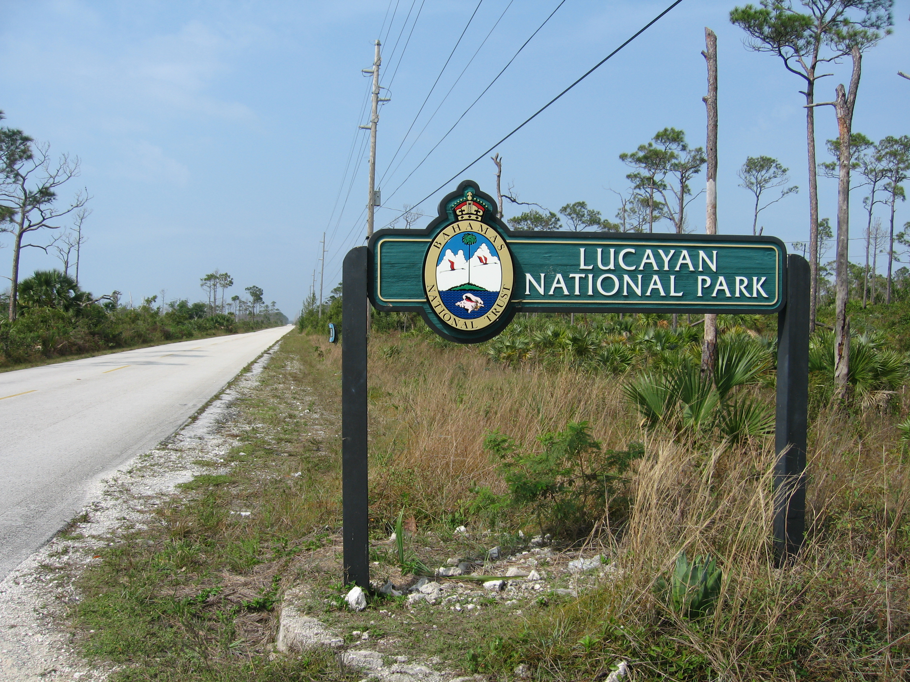 Entrance to Lucayan National Park, Grand Bahama Island, Bahamas